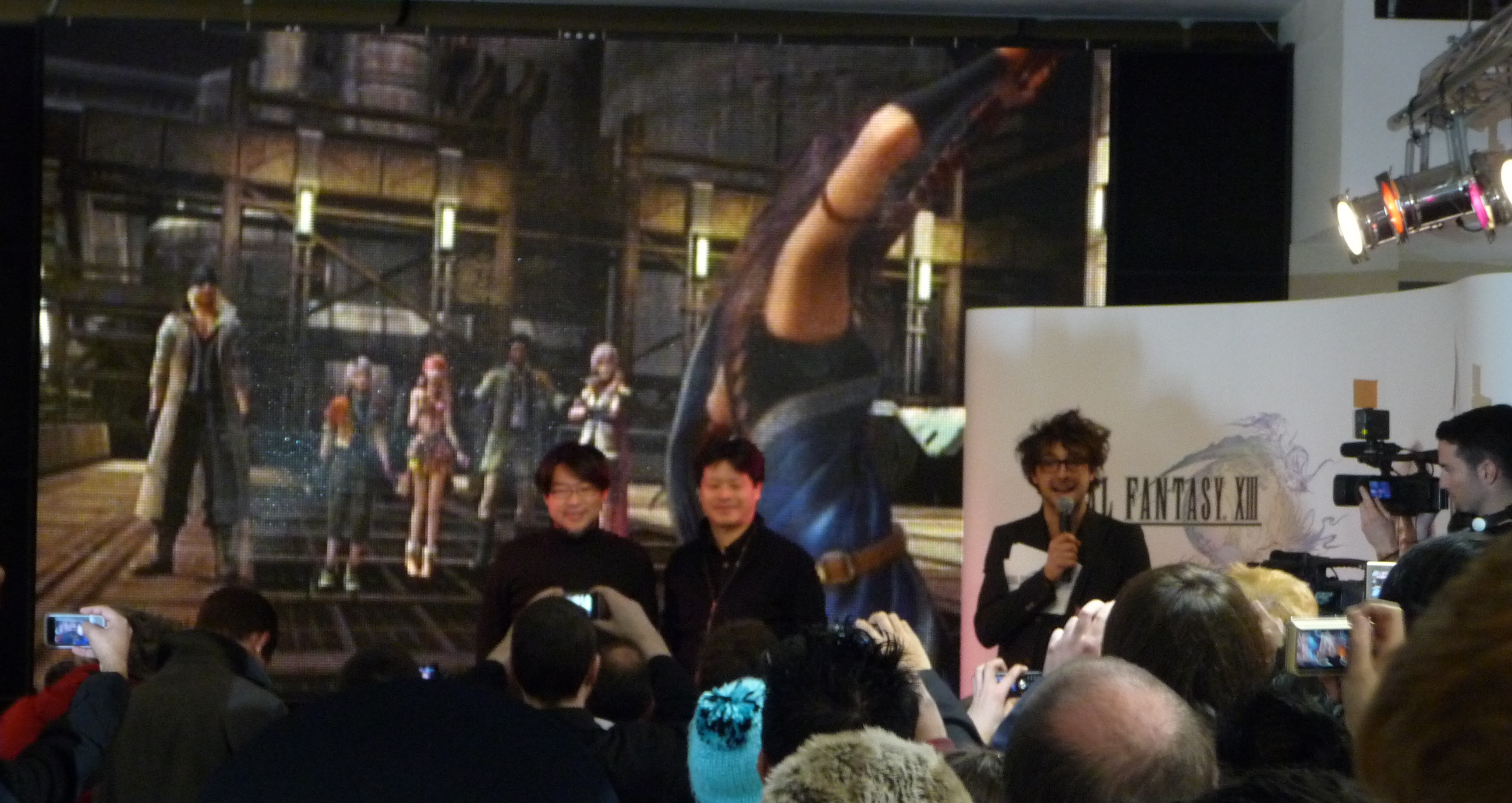 Spent 5+ hours in line at HMV's Final Fantasy XIII launch. Met the godfather of the Final Fantasy series Yoshinori Kitase and the Art Director Isamu Kamikokuryo.